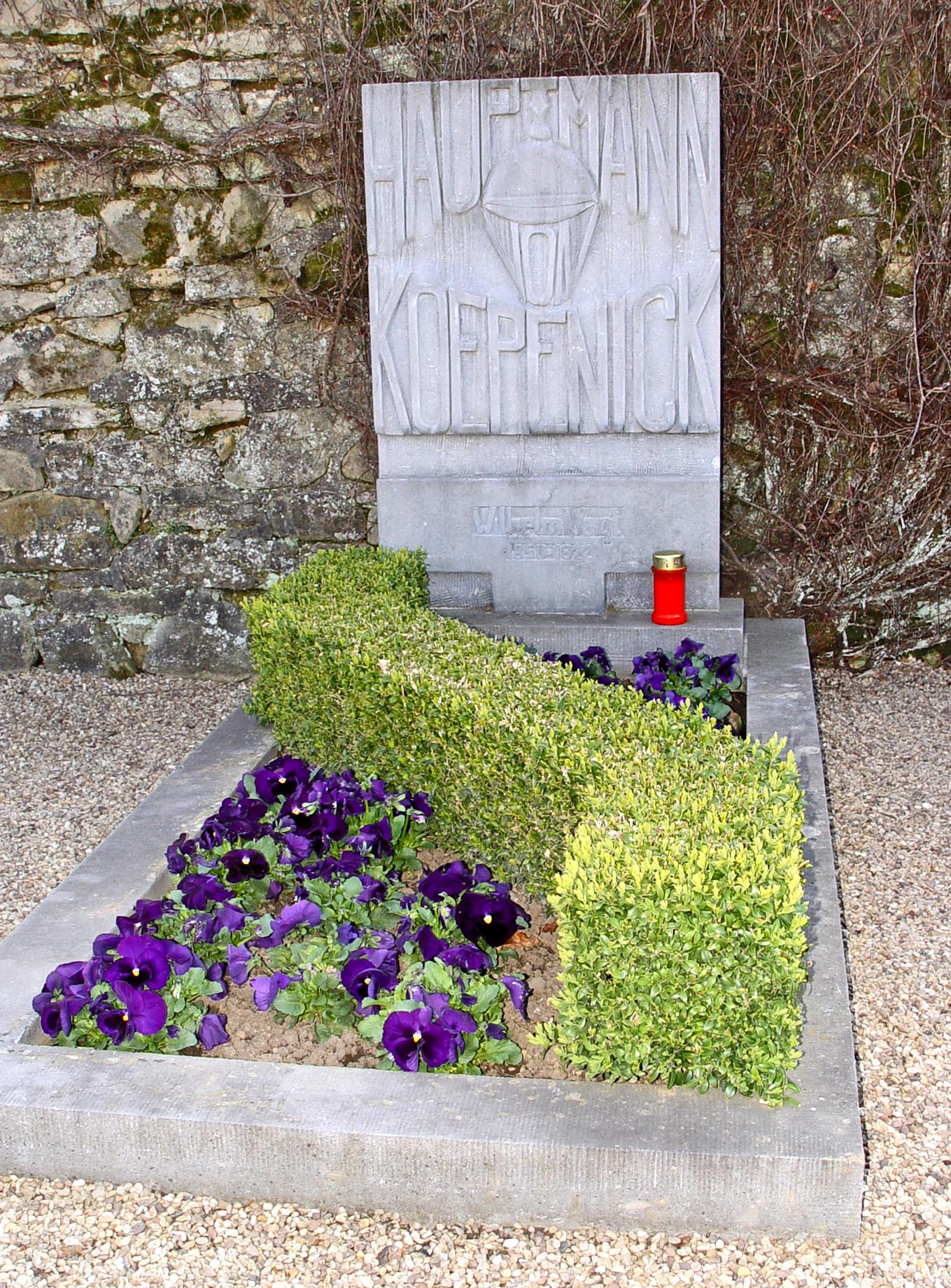 Luxembourg City, Notre-Dame cemetery: tomb of Wilhelm Voigt (1849-1922)